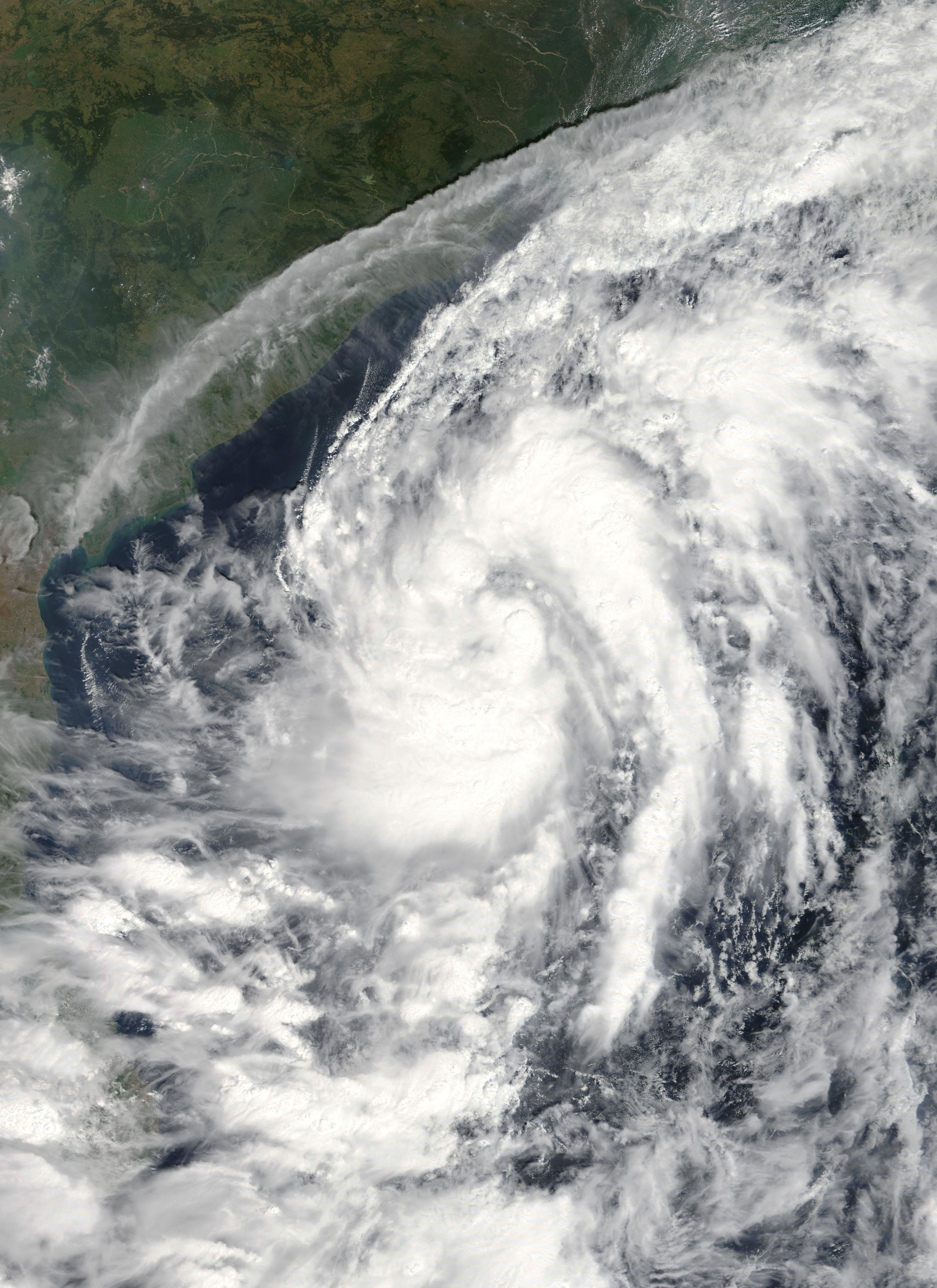 Cyclonic Storm Titli on October 9, 2018